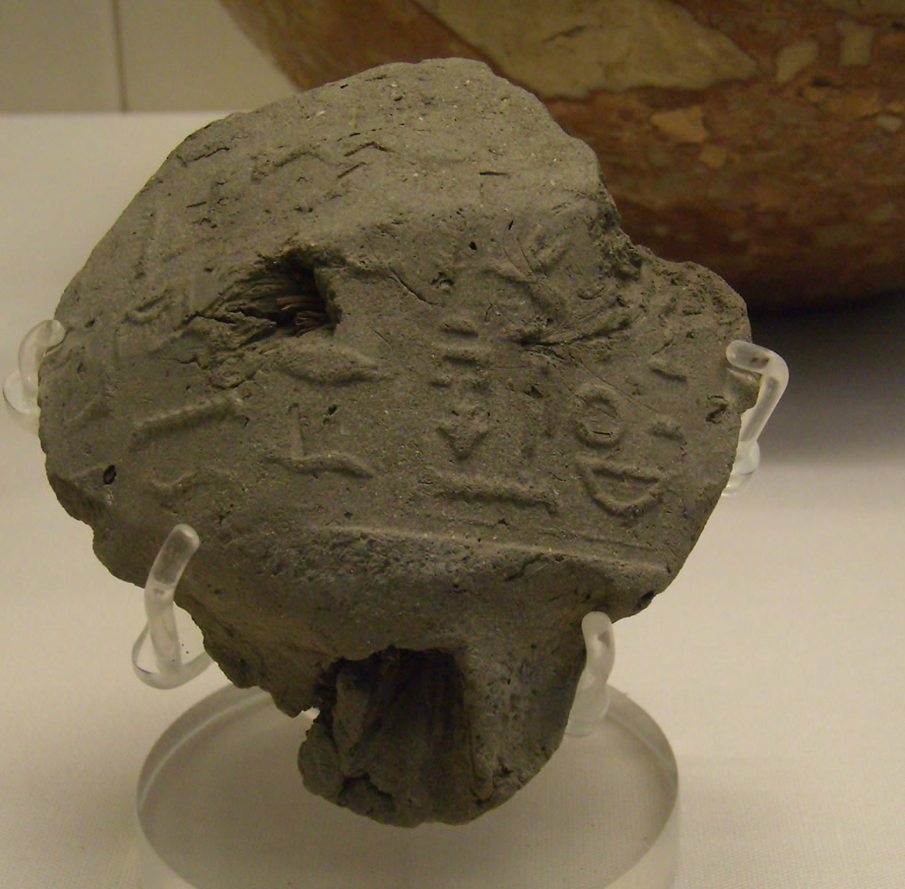 seal impression, found at Abydos, naming king Peribsen of the Ancient Egyptian 2nd Dynasty, including the oldest known complete sentence in Egyptian (c. 2690 BC): "The Ombite (i.e. Set) has given the Two Lands to his son, Dual King Peribsen." I. E. S. Edwards, C. J. Gadd, N. G. L. Hammond (eds.), The Cambridge Ancient History (1964), p. 31 Allen, James P. (2003). The Ancient Egyptian Language. Cambridge University Press. p. 2. ISBN 978-1-107-66467-8.